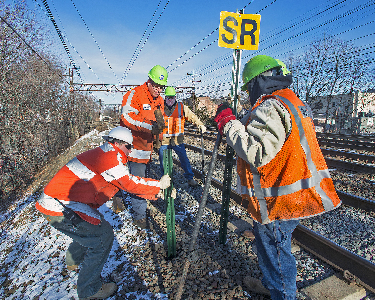 Crews installed speed restriction signs at Metro-North's Port Chester station on December 12, 2013, in aftermath of December 2013 Spuyten Duyvil derailment. Photo: MTA / Patrick Cashin